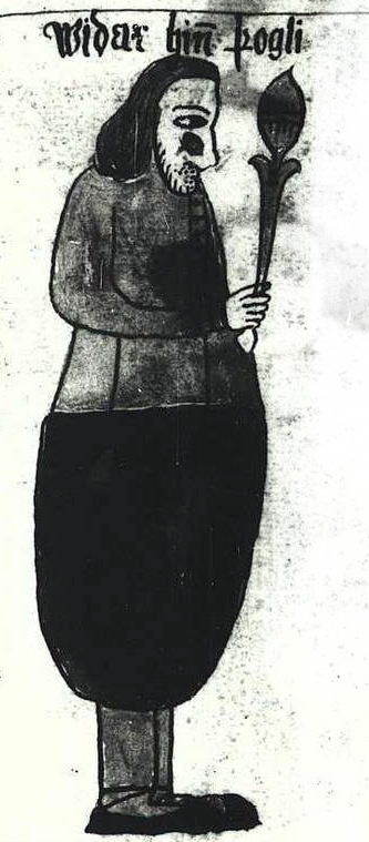 An illustration of the Norse god Víðarr, from an Icelandic 17th century manuscript. A scan of a black and white photography.